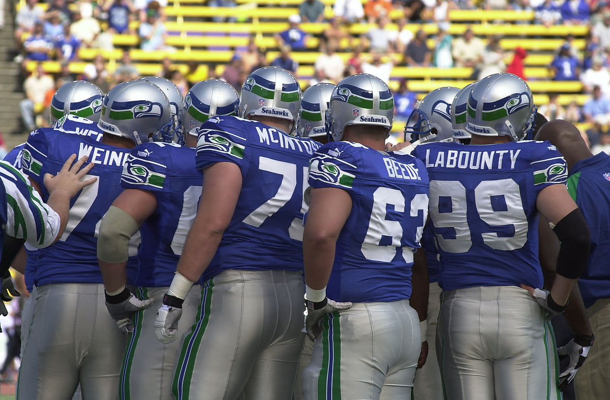 Seattle Seahawks' offensive linemen during 2000 NFL season.